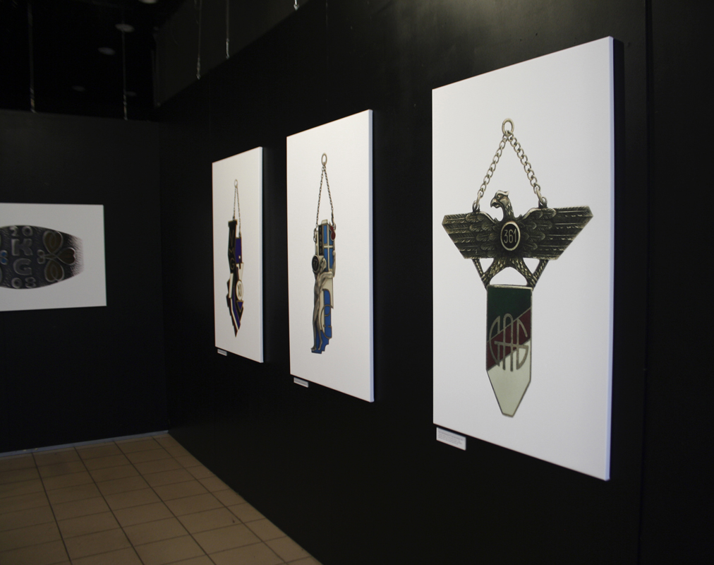 Roman Tavast Badges. Exhibition at Art Gallery in Tallinn.